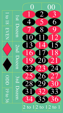 American Roulette Layout